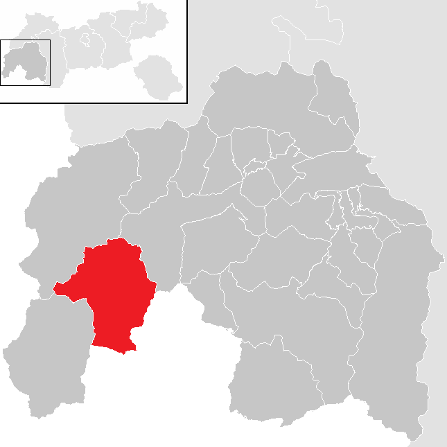 District Landeck